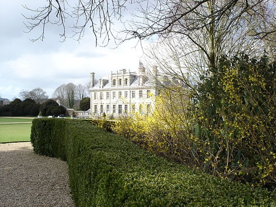 Kingston Lacy, Dorset